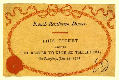 Ticket for the "French Revolution Dinner", Royal Hotel, Birmingham, England 14 July 1791. The Dinner began the chain of events which led to the Priestley Riots. The Ticket admits the bearer to dine at the Hotel on Thursday, July 14, 1791.